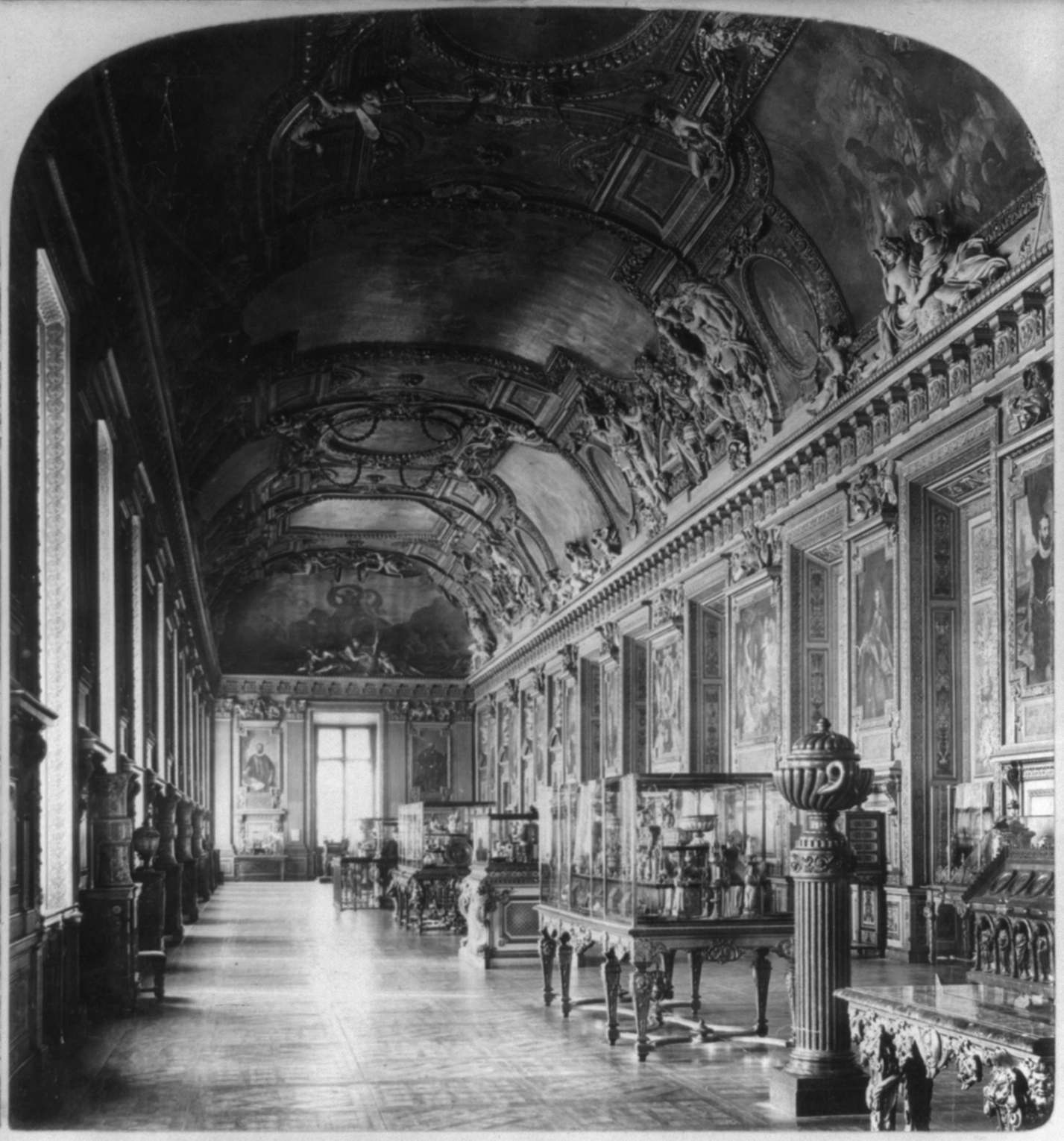 Gallery d'Apollon in the Louvre, Paris, France.